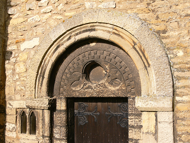 Romanesque (Norman) Priest's Door at St Medard's & St Gildard's church, Little Bytham, Lincolnshire, UK. The empty circular niche in the semicircular tympanum above the door may once have held a relic of St Medard. The two birds are probably eagles; one features in the legend of St Medard or Medardus (a 6th century bishop of Noyon, France) in which it is said to have hovered above him to shelter him from rain. The double lancet window is of a later date than the door